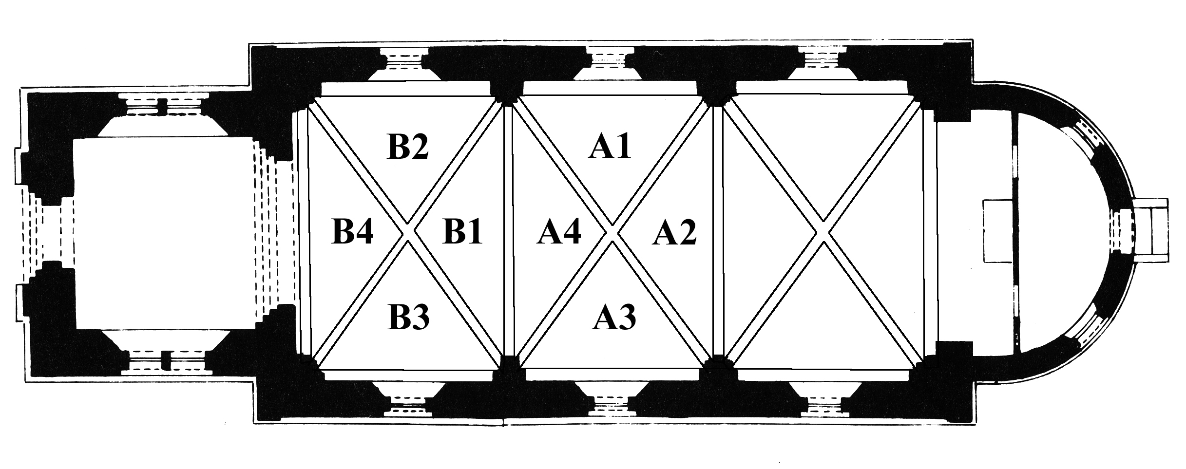 The wallpaintings in Äspö church, Sweden.